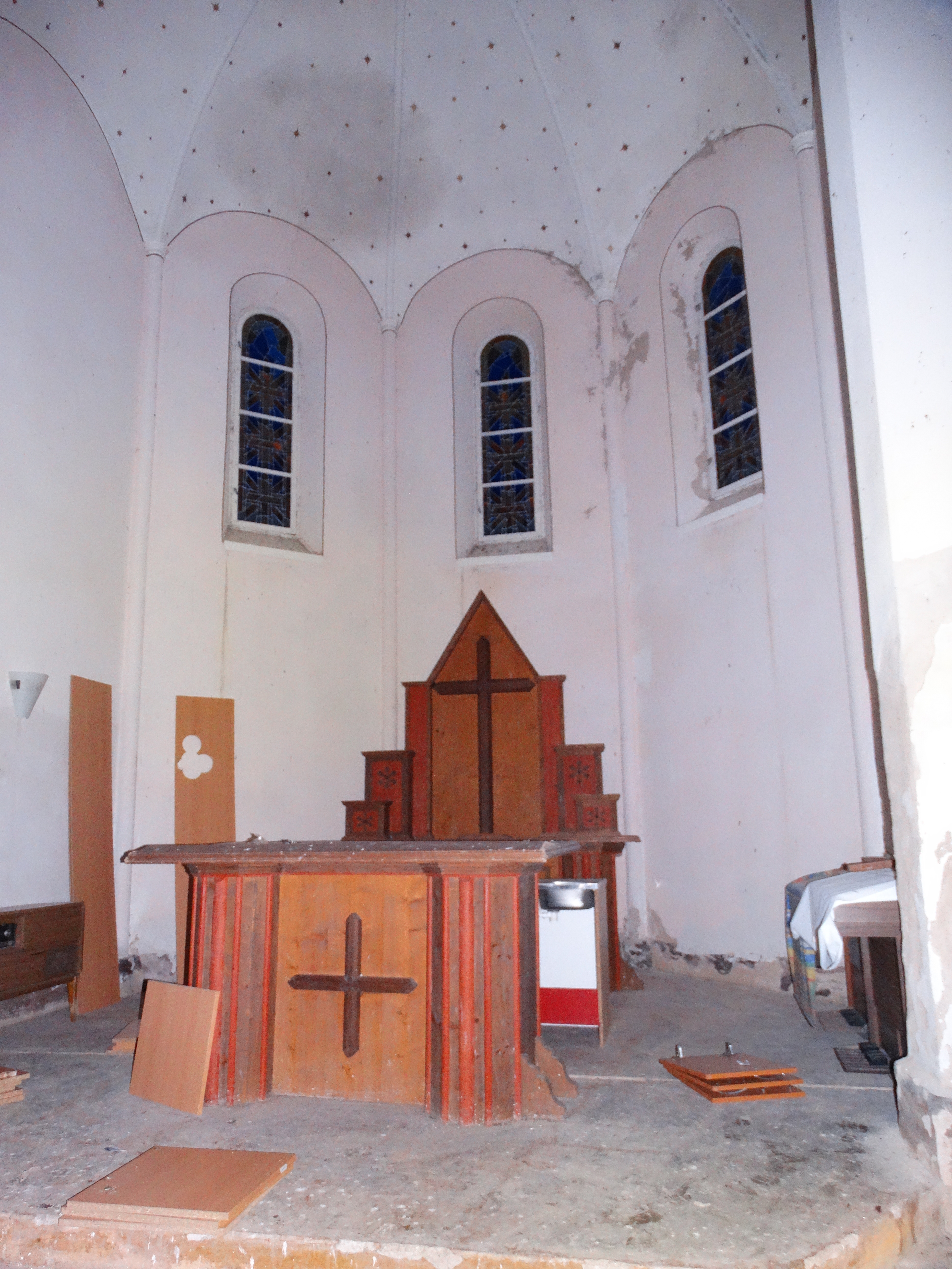 Lutheran Church, Vyžiai, Šilutė district, Lithuania